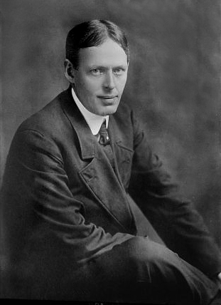 Vaughan Kester - Vintage News Service Photos.